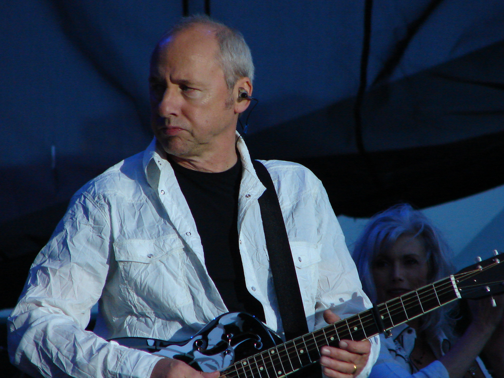 Mark Knopfler and Emmylou Harris Performing in Chicago on June 25th 2006